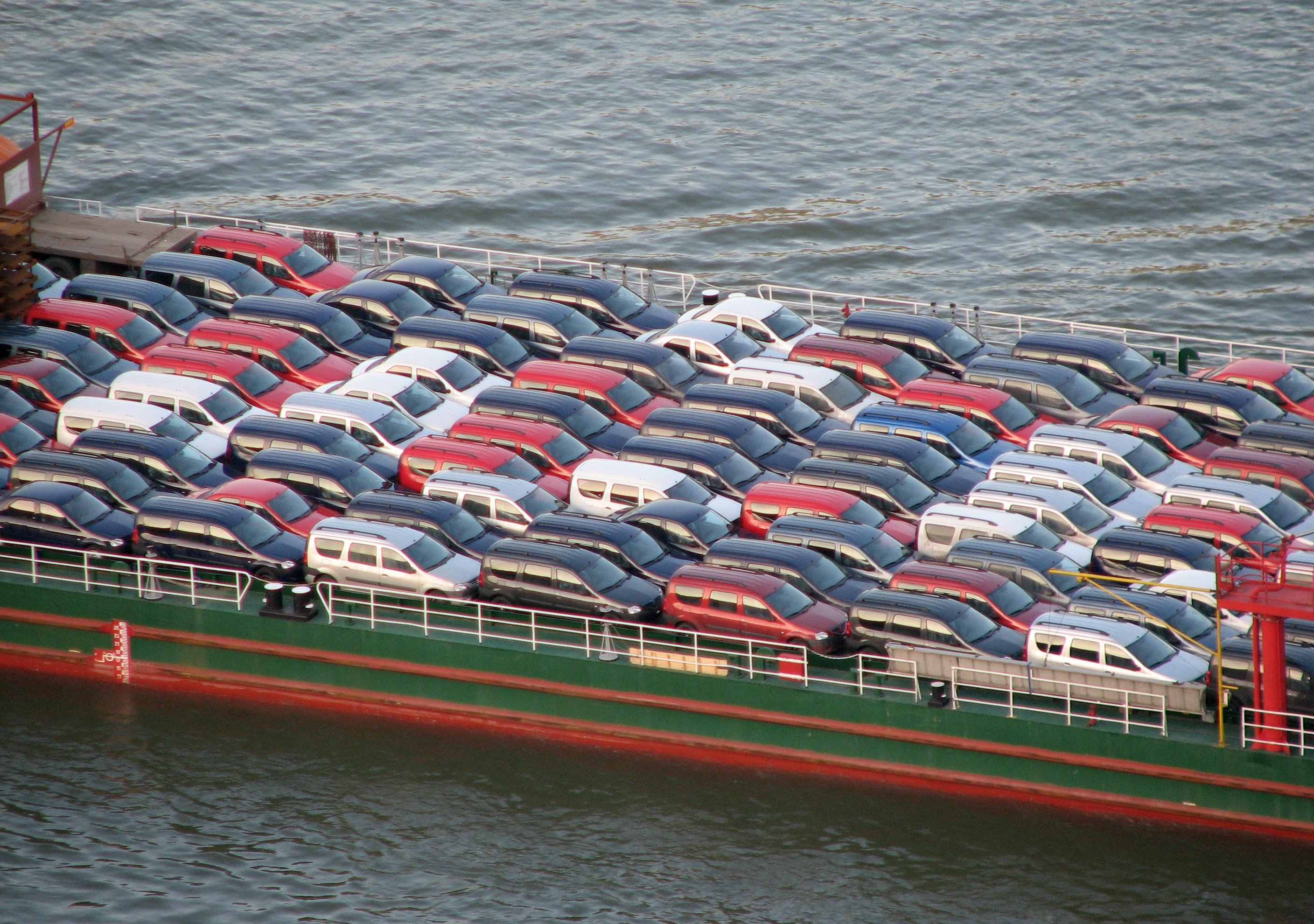 Barge Han Krum with cars (Dacia Logan MCV) on the Danube at Budapest, Hungary.